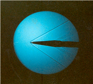 Schlieren photograph of a Mach 2,4 (supersonic) flow